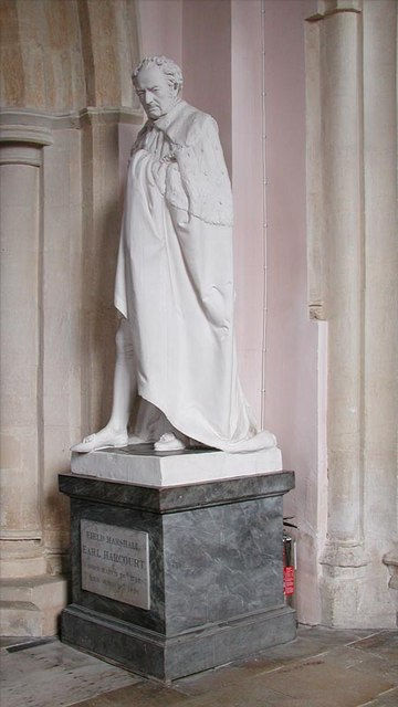 St Michael's parish church, Stanton Harcourt, Oxfordshire: full-size plaster model by Robert William Sievier for statue of William Harcourt, 3rd Earl Harcourt